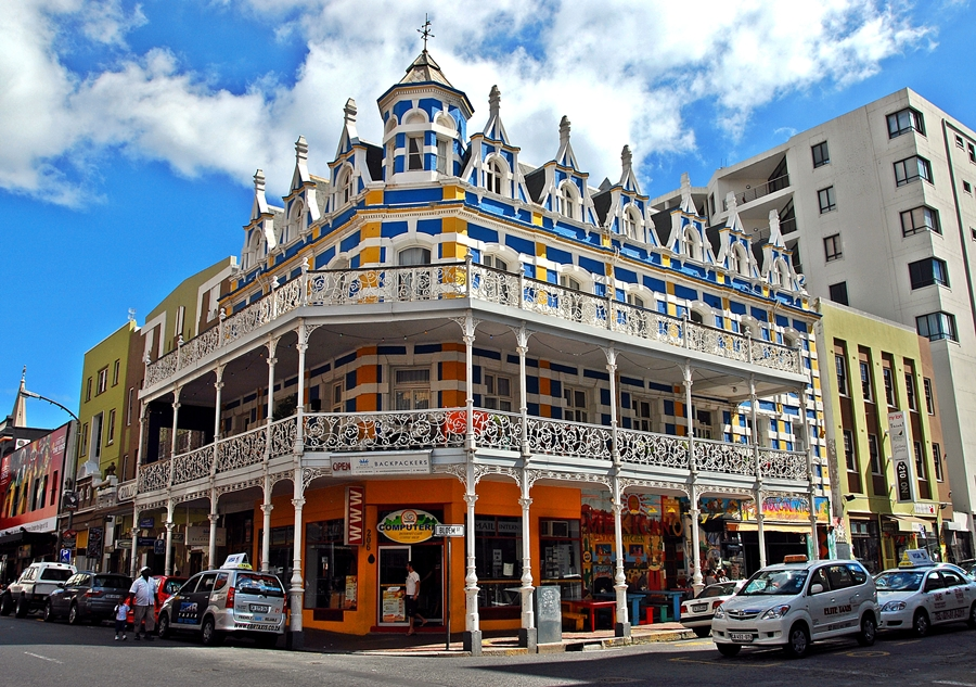 The Blue Lodge Hotel consists of a treble storeyed building with two balconies and a steep roof with dormer windows, pinnacled gables and a corner turret of exuberant late-victorian design, just before 1900. The balconies have intricate moulded MacFarlane This impressive late Victorian building, which was erected at the turn of the century, forms an integral part of the architectural character of Long Street, a part of Cape Town where a uniformity of character has to a large extent remained. Architectural style: VICTORIAN. Type of site: Commercial . This impressive late Victorian building, which was erected at the turn of the century, forms an integral part of the architectural character of Long Street, a part of Cape Town where a uniformity of character has to a large extent remained.